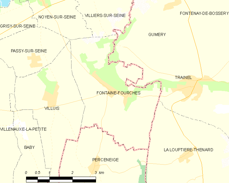 Map of French municipality Fontaine-Fourches